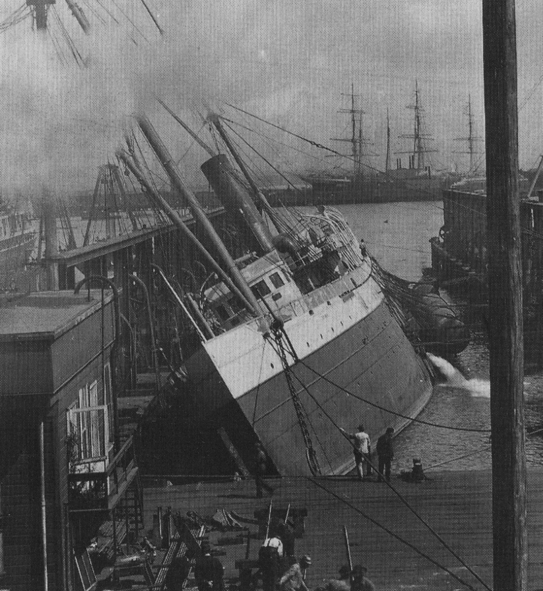 Scanned from postcard of a 1906 photograph. This is the SS Columbia lying on her starboard side against the hydraulic dry dock at Union Iron Works.